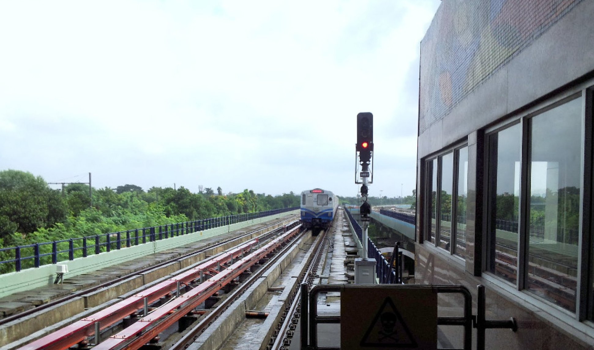 A train approaching Noapara metro station.